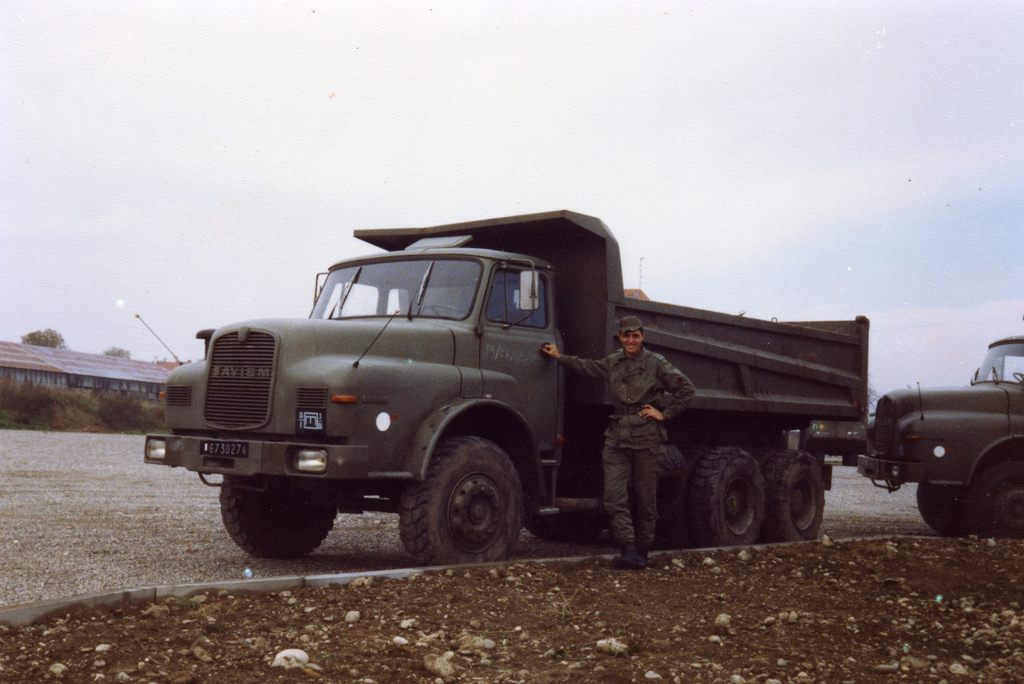 A Saviem dump truck in French military service in 1990.